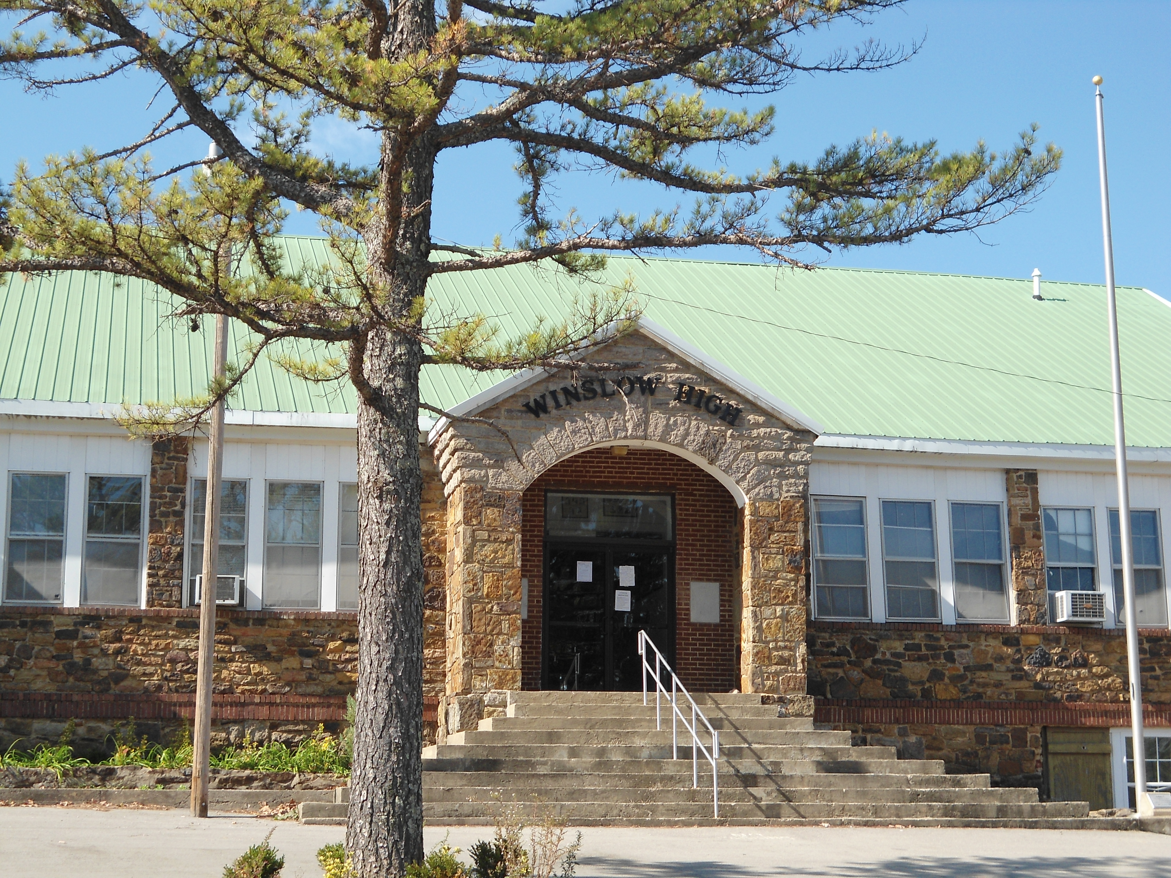 Former Winslow, Arkansas High School building. The school consolidated with Greenland in 2005.